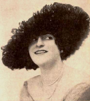 Actress and dancer Norka Rouskaya aka Norka Roskaya, who was born in Switzerland, on page 23 of the April 13, 1918 Exhibitors Herald.